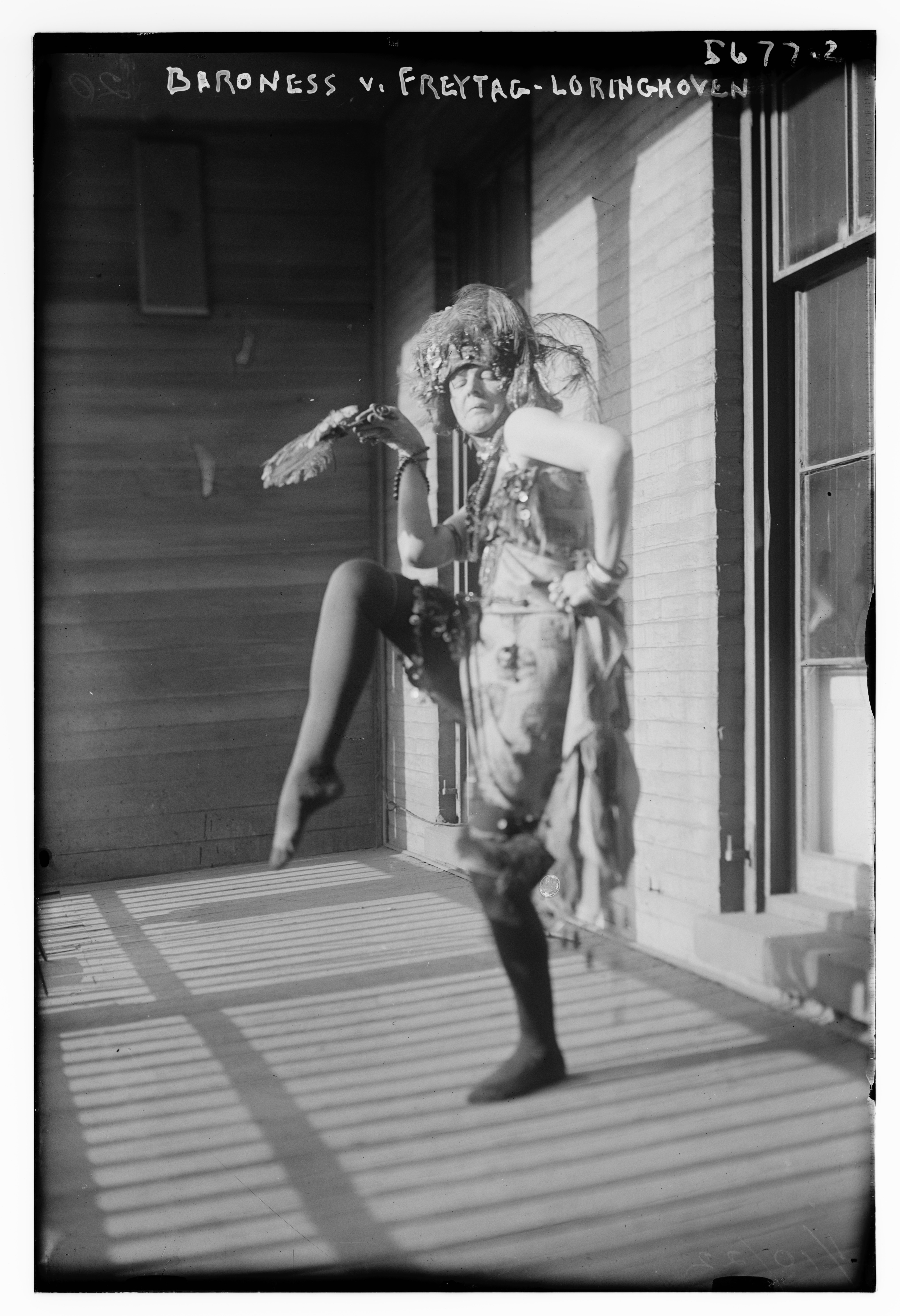 Title: Baroness Von Freytag -- Loringhoven Abstract/medium: 1 negative : glass ; 5 x 7 in. or smaller.